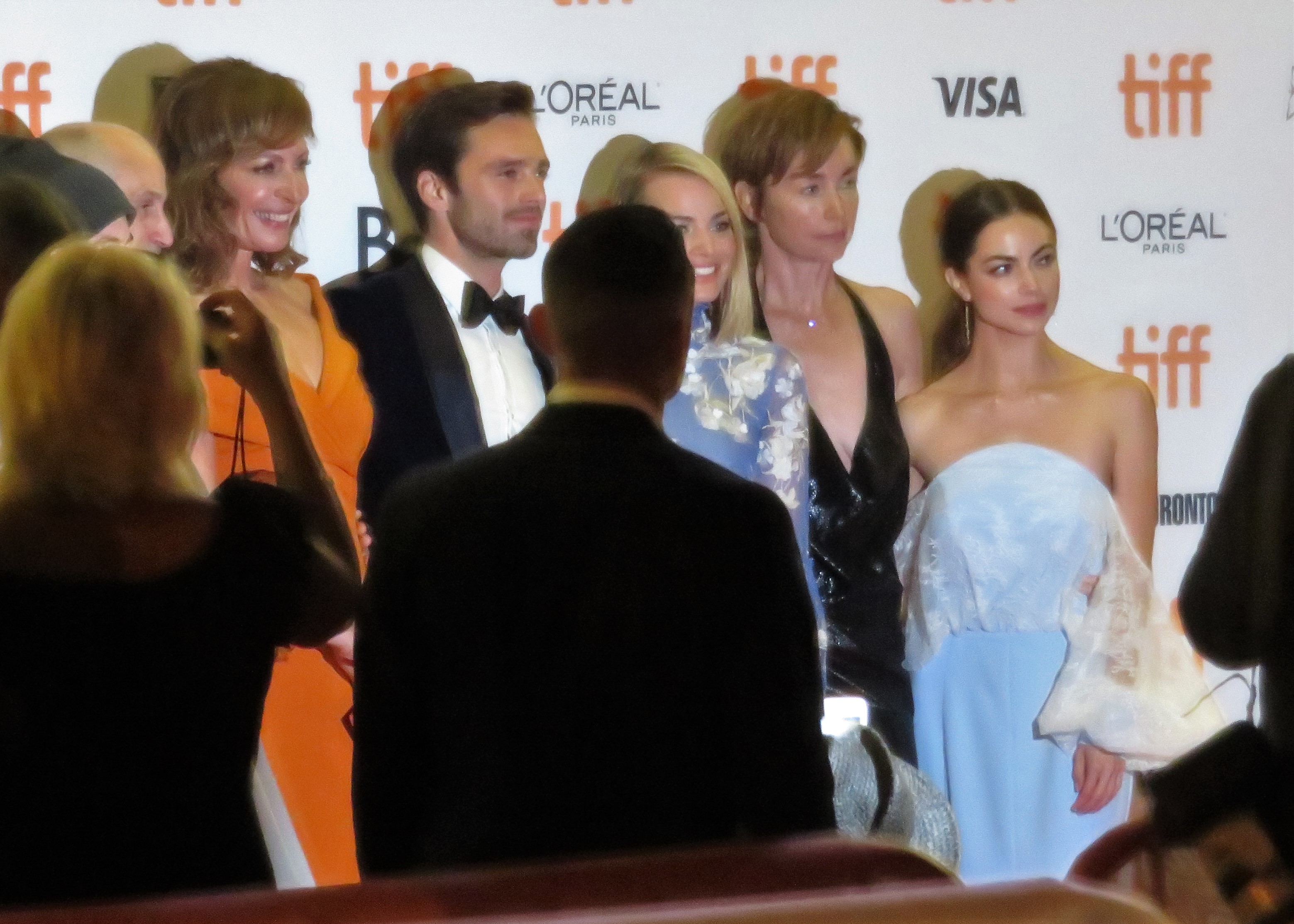 That guy just has to be in the way. Allison Janney, Sebastian Stan, Margot Robbie, Julianne Nicholson and Caitlin Carver at the premiere of I Tonya, 2017 Toronto Film Festival